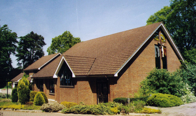 Roman Catholic church of the Sacred Heart, High Street, Bordon, HAmpshire